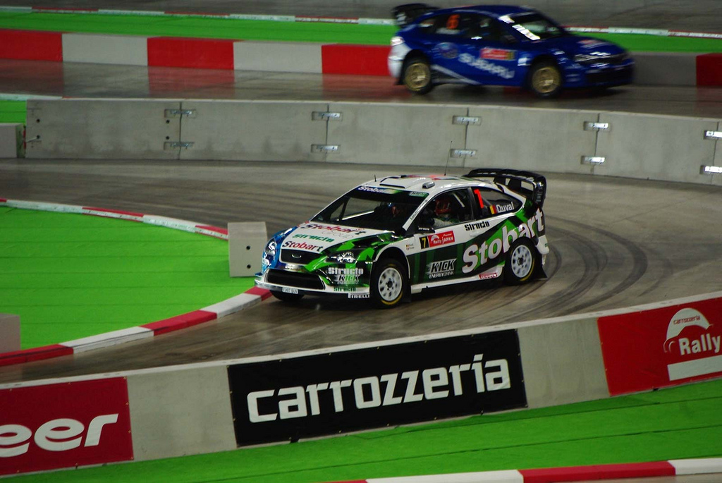 François Duval driving his Ford Focus RS WRC 07 at a Sapporo Dome super special stage of the 2008 Rally Japan.